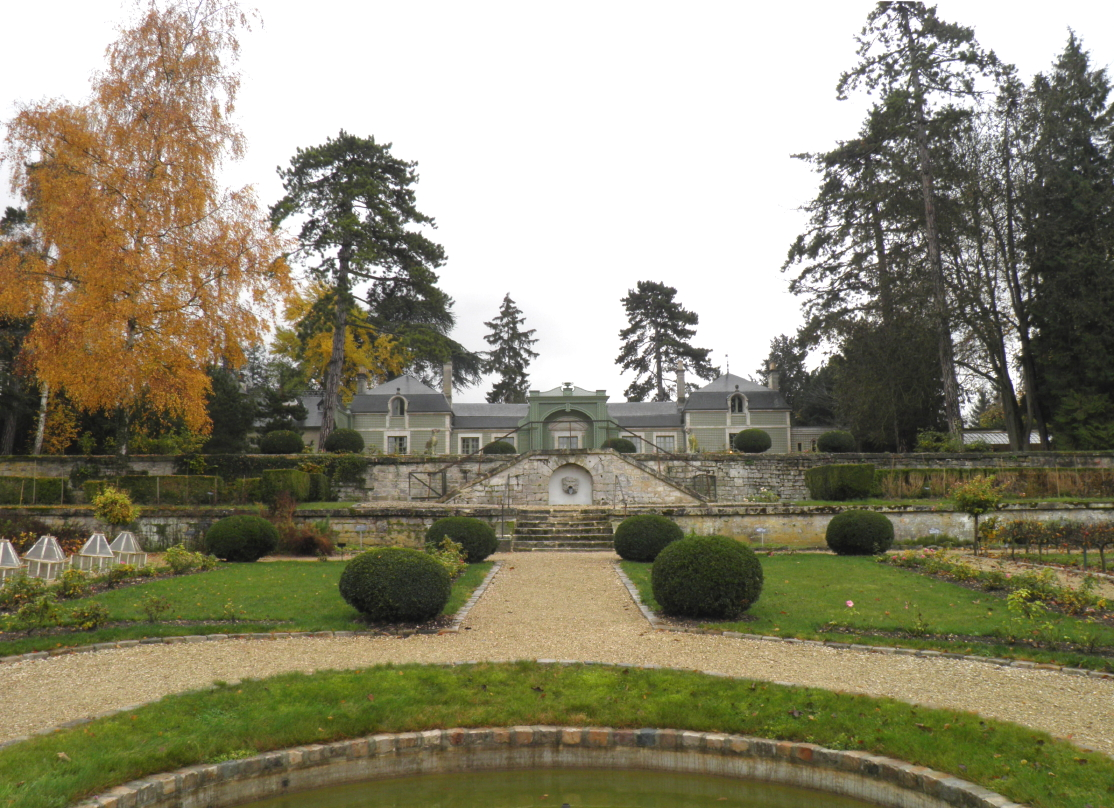 Former pheasant farm of the castle of Chantilly. Now Potager des princes, Chantilly, Oise, France.